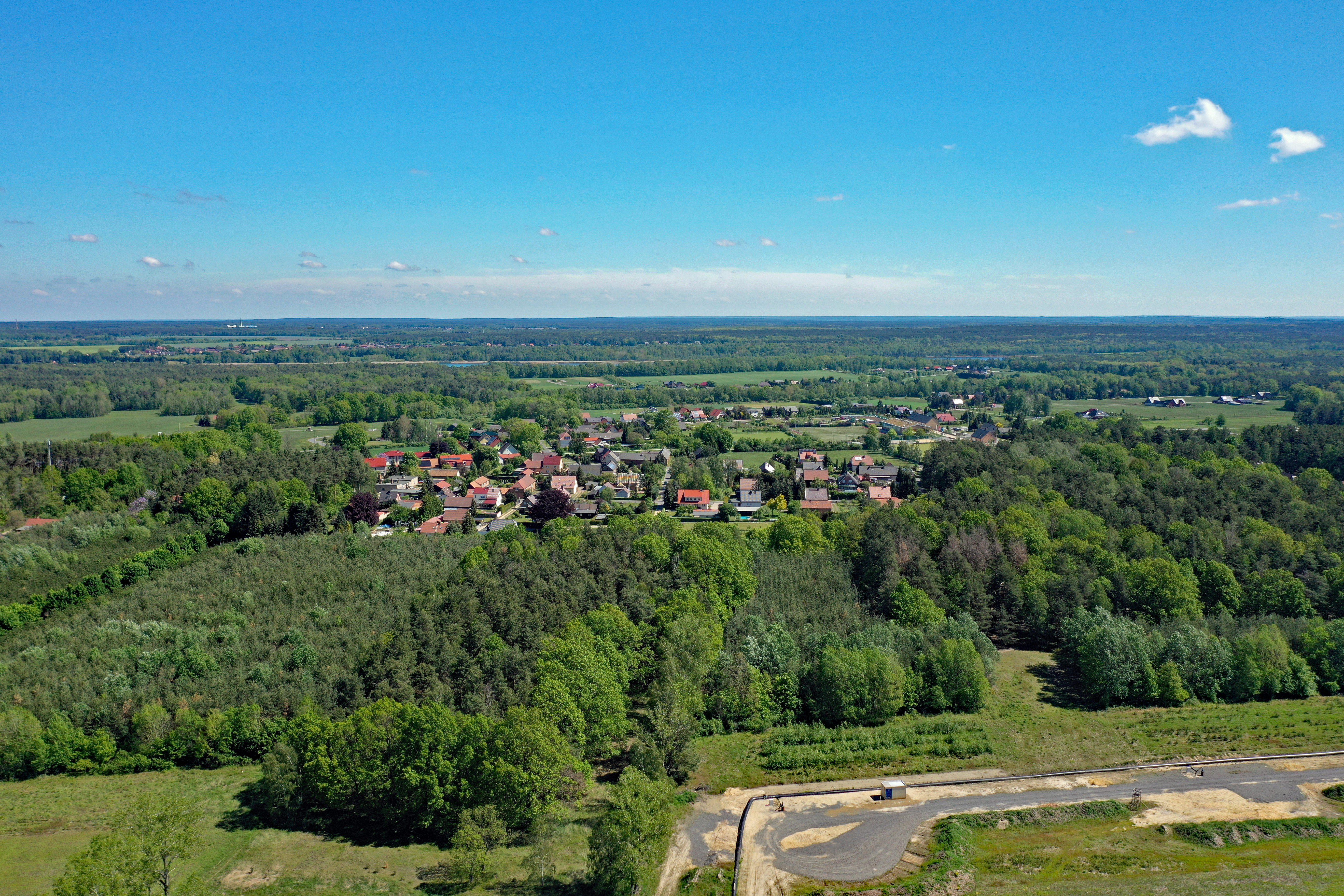 Trebendorf (Saxony, Germany) Hornjoserbsce: Powětrowy wobraz Trjebina